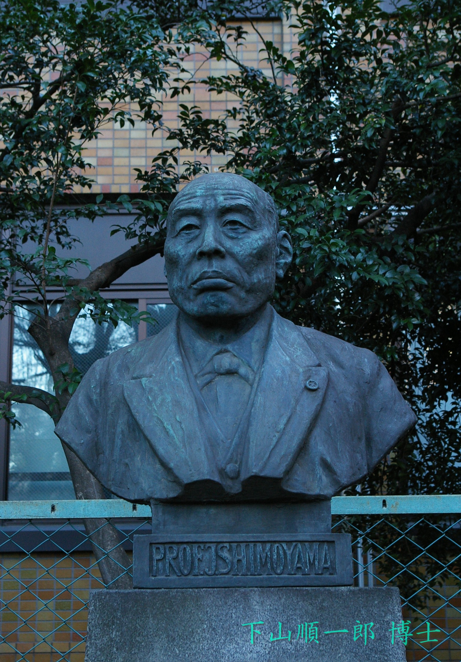 It was taken in Japan.